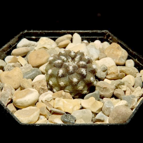 Eriosyce napina ssp. tenebrica